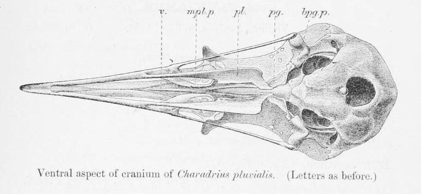 Skull of a Golden Plover Pluvialis apricaria (syn. Charadrius pluvialis)